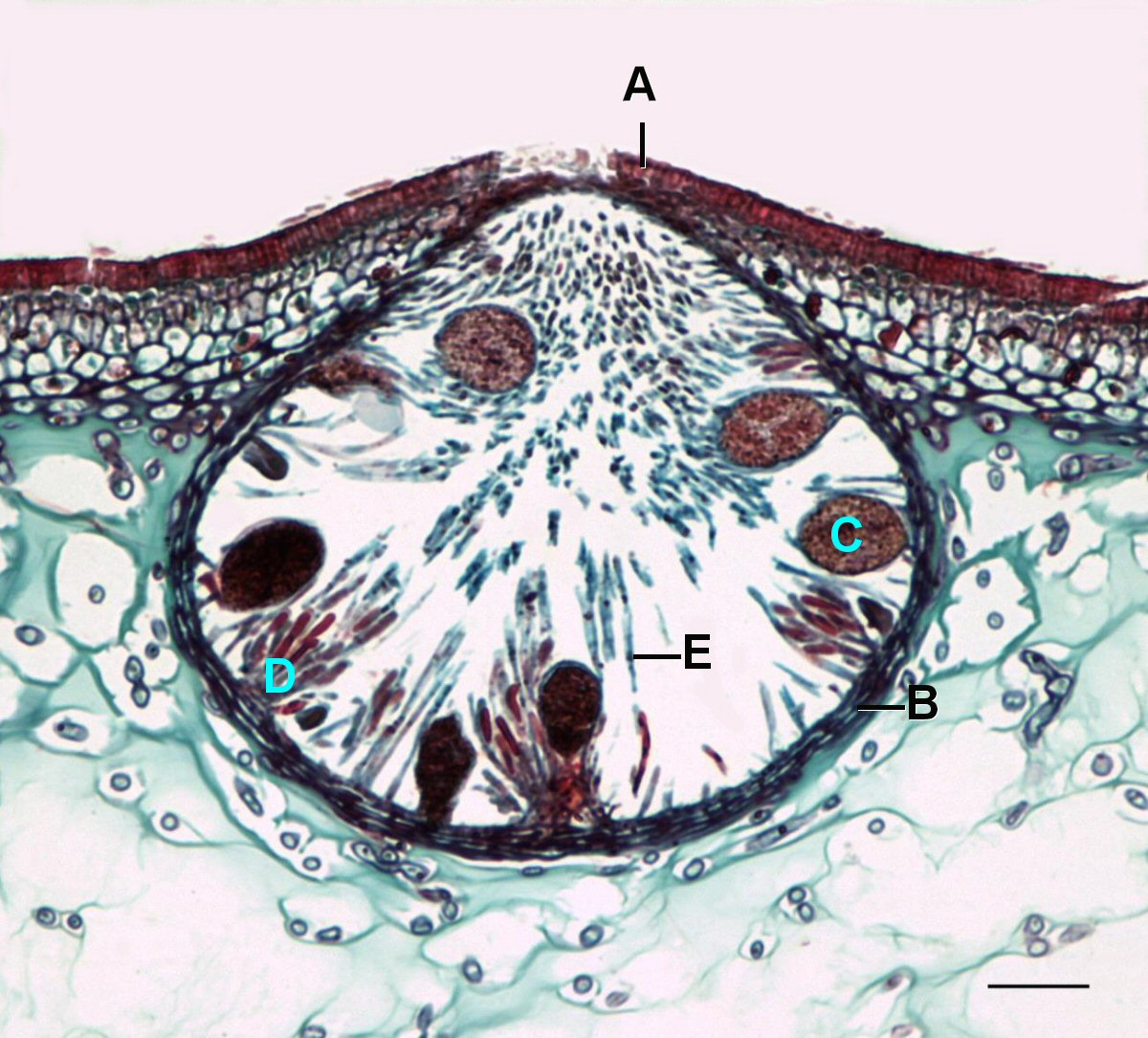 Light microscopy of Fucus showing a monoecious conceptacle that has both oogonium and antheridia inside as well as sterile paraphyses. A=Surface of receptacle, B=Medullary Hypha, C=Oogonium, D=Antheridial branch, E=Paraphyses.Scale bar = 0.2mm.